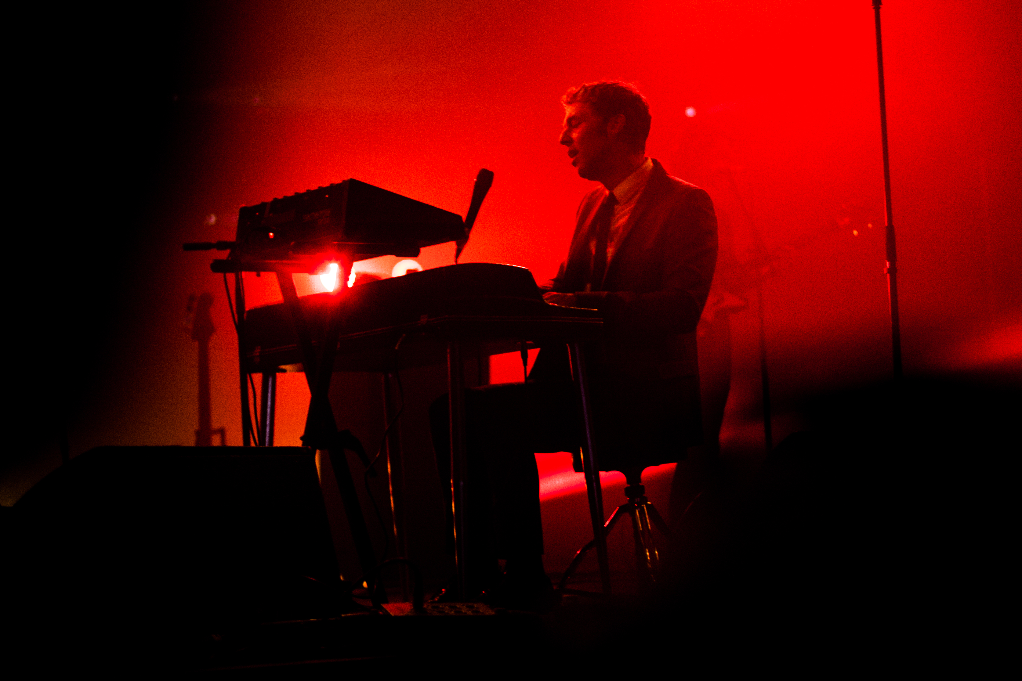 Follow me on facebook Twitter : @didyPhotography All the photographies I've made are now under CC0 (Creative Commons Zero) CC0 - learn more To the extent possible under law, Eddy BERTHIER has waived all copyright and related or neighboring rights to Baxter Dury @ Dour 2012 This work is published from: France.